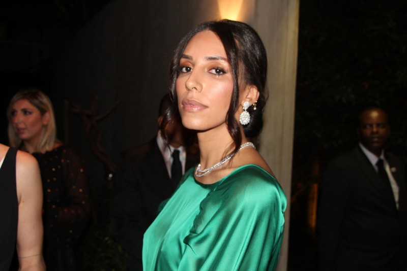 22 - Lea T-001